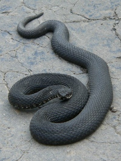 Crossed Viper (Vipera berus), Bieszczady, Poland